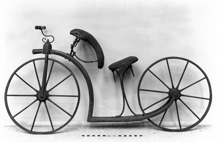 Baron Charles von Drais patented the hobby or dandy horse in France in 1818. The hobby horse was a forerunner of the bicycle and was introduced into England in 1818 by coachmaker Denis Johnson, who took out the British patent.